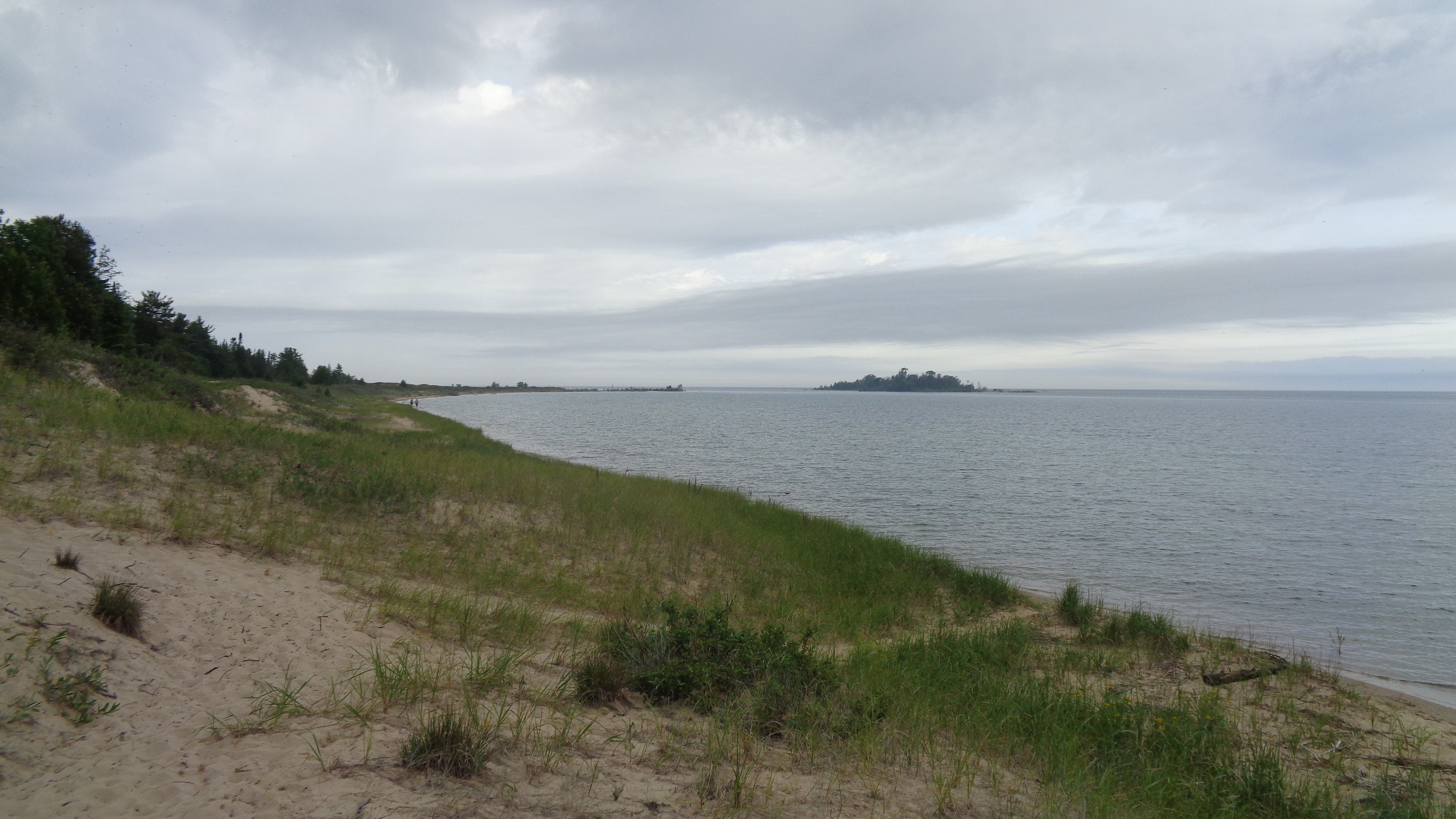 Depicted place: Fisherman's Island State Park